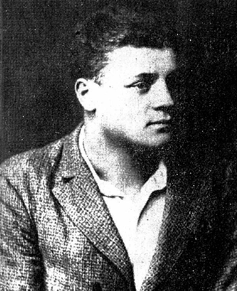 Photograph of the Romanian sculptor and communist militant Gheza Vida, taken in 1936, shortly before he left to fight in the Spanish Civil War.